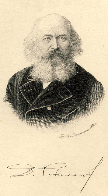 Dmitry Rovinsky (1824-1895), Russian lawyer, art collector and art historian.